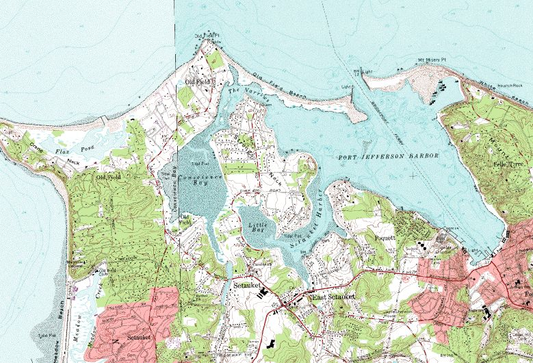 Strongs Neck topographic map from the USGS